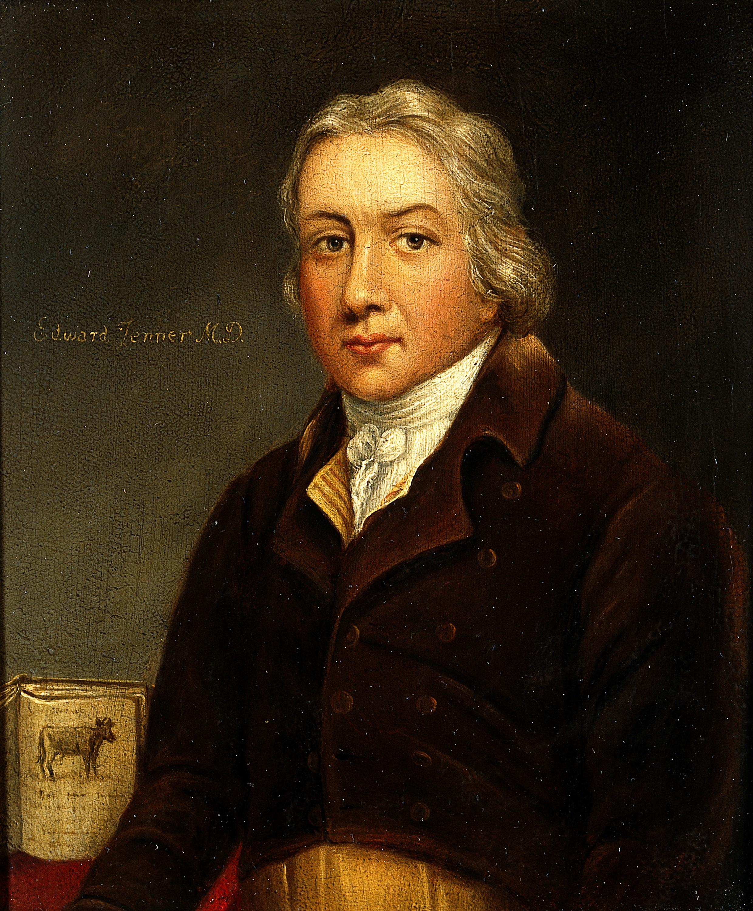 Edward Jenner. Oil painting. Iconographic Collections